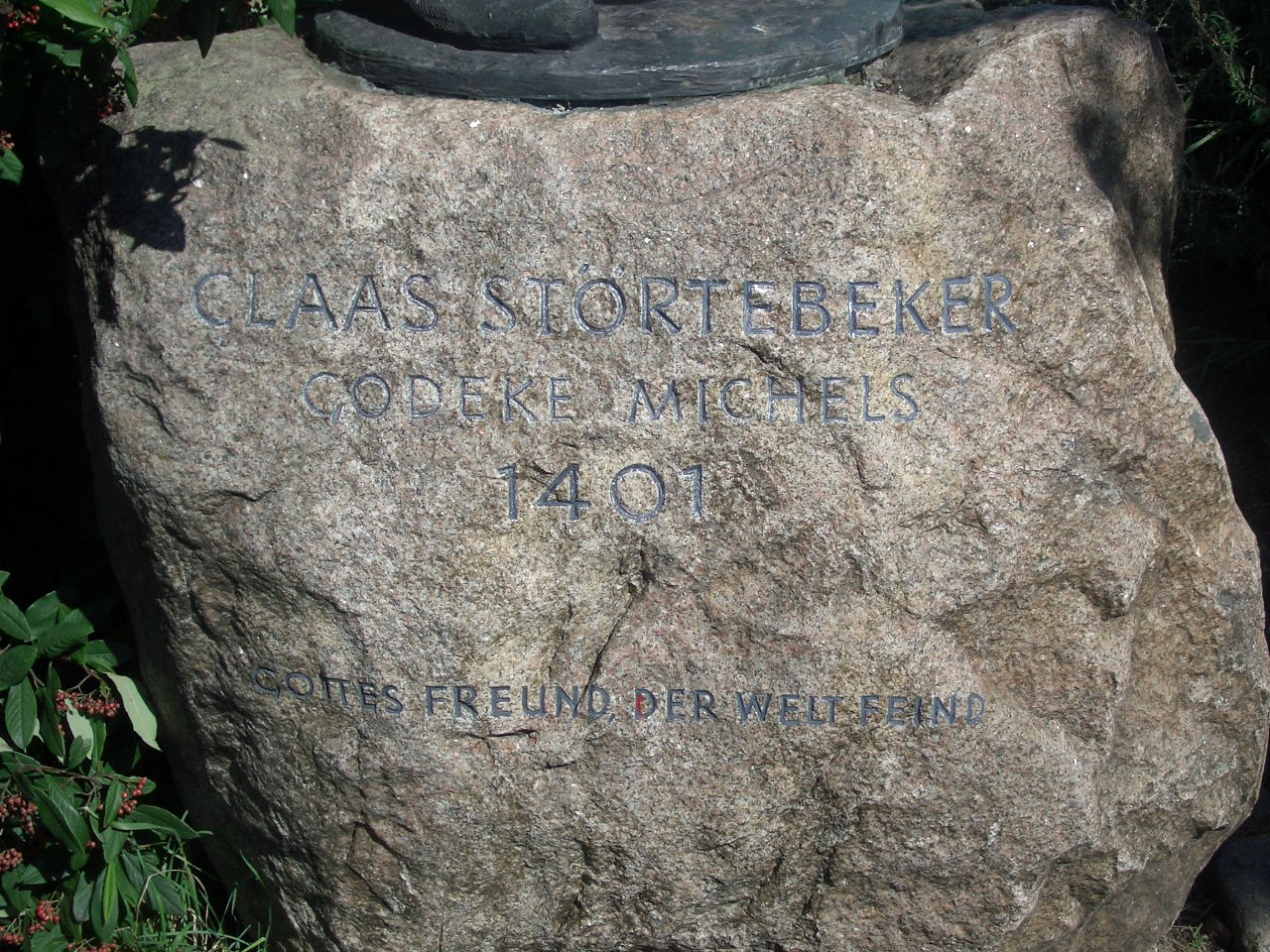 Inscription Störtebeker memorial by Hansjörg Wagner in Hamburg, Germany.